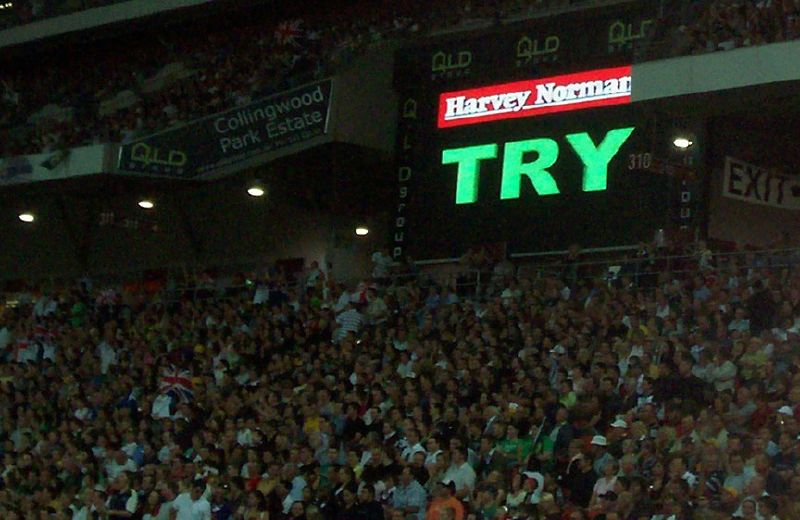 The Video Referee confirms Mark Gasnier's Try during the Australia v Great Britain Rugby League Test Match - Lang Park (Suncorp Stadium), Brisbane, Australia, November 18th 2006